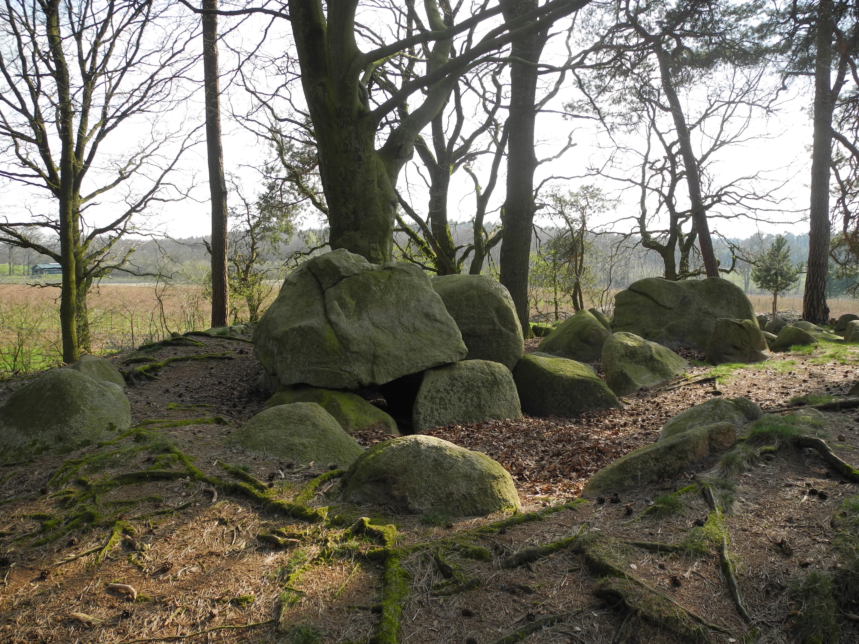 Megalithic tomb "Rickelmann II" (Westerholte, district Osnabrück, Lower Saxony, Germany).